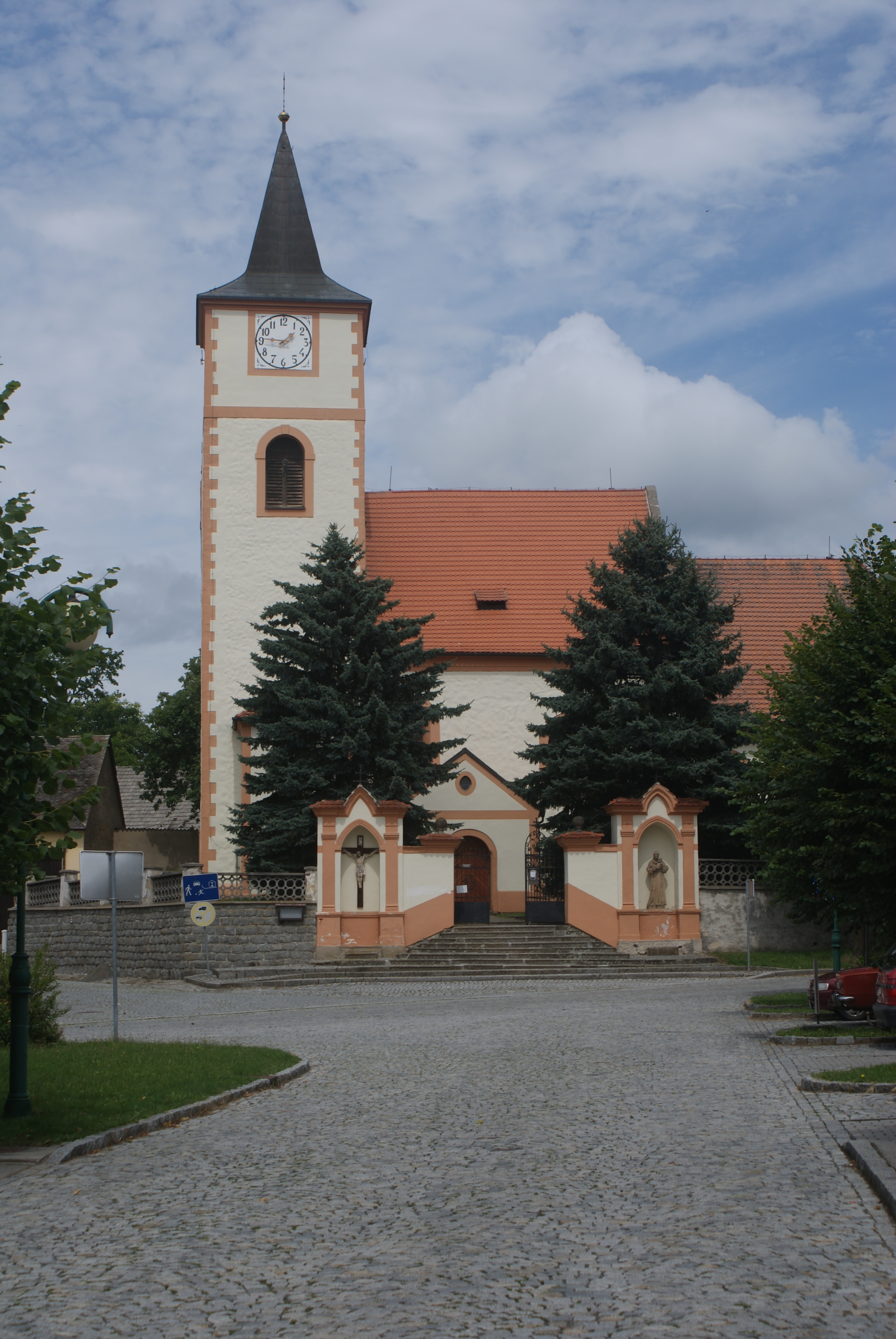 Kasejovice, town in Plzeň jih district, Czech Republic. The Church of St Jacob.